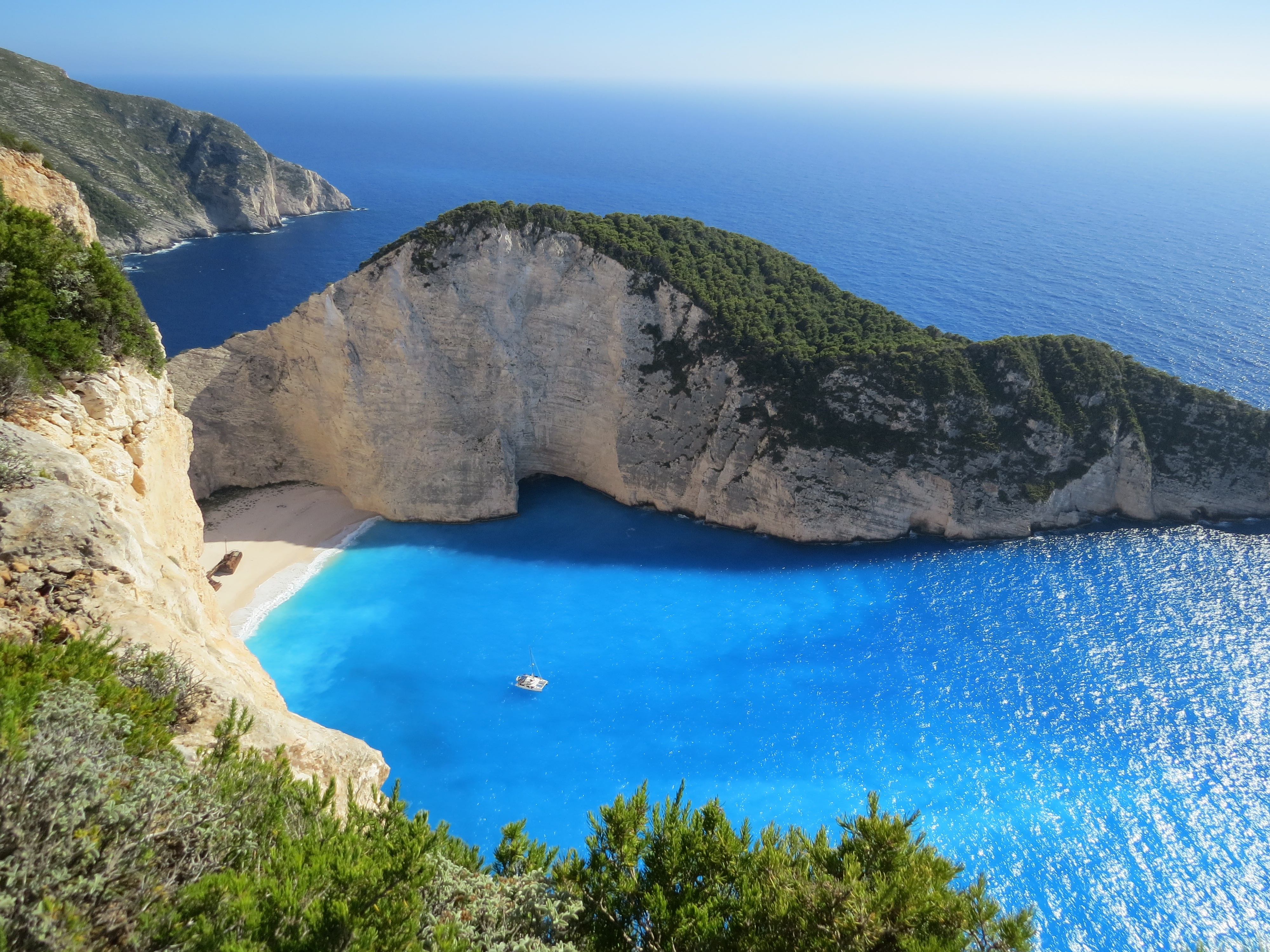 cyclades navagio greece